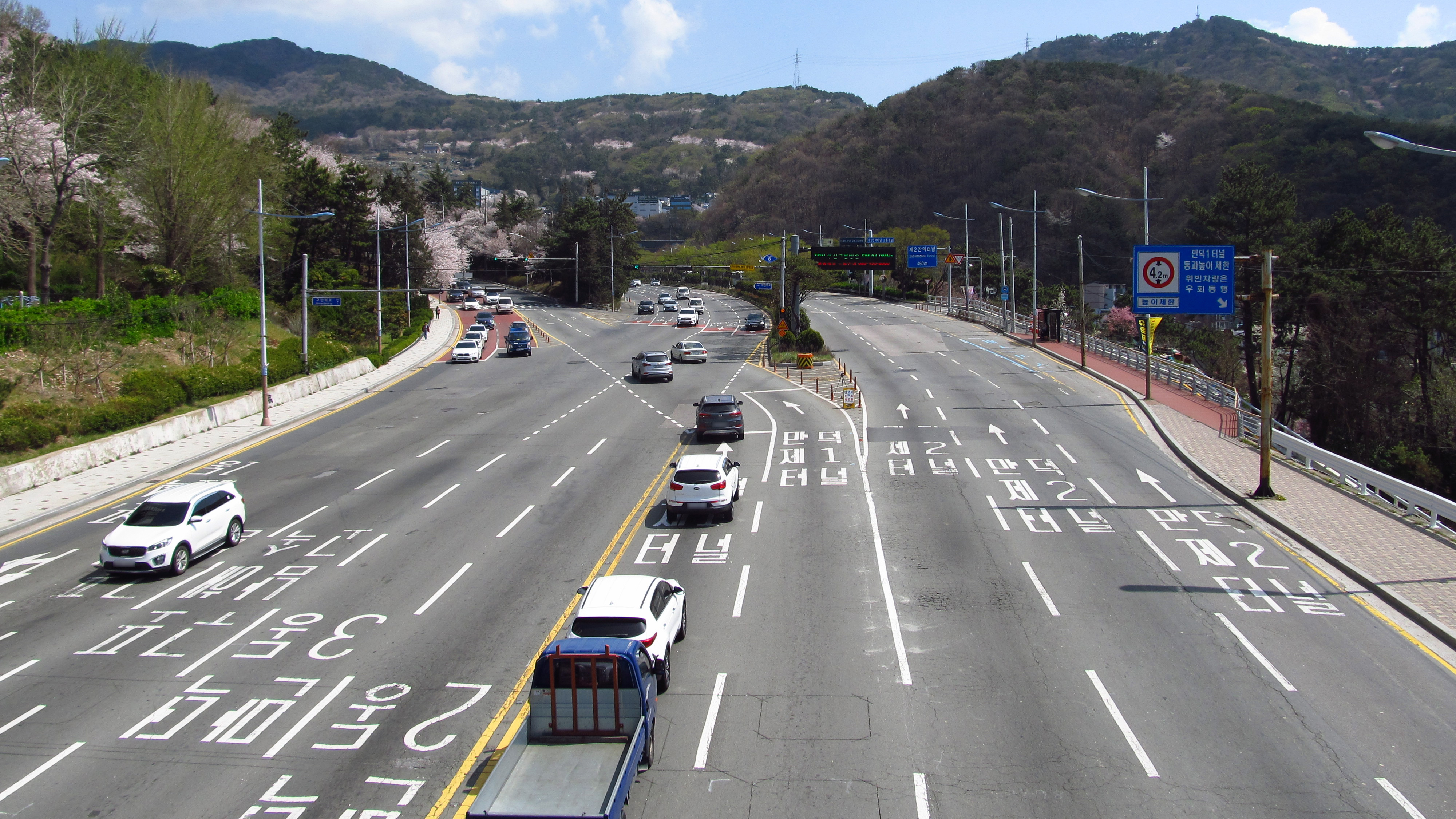 National Route 14(Near Mandeok Station)